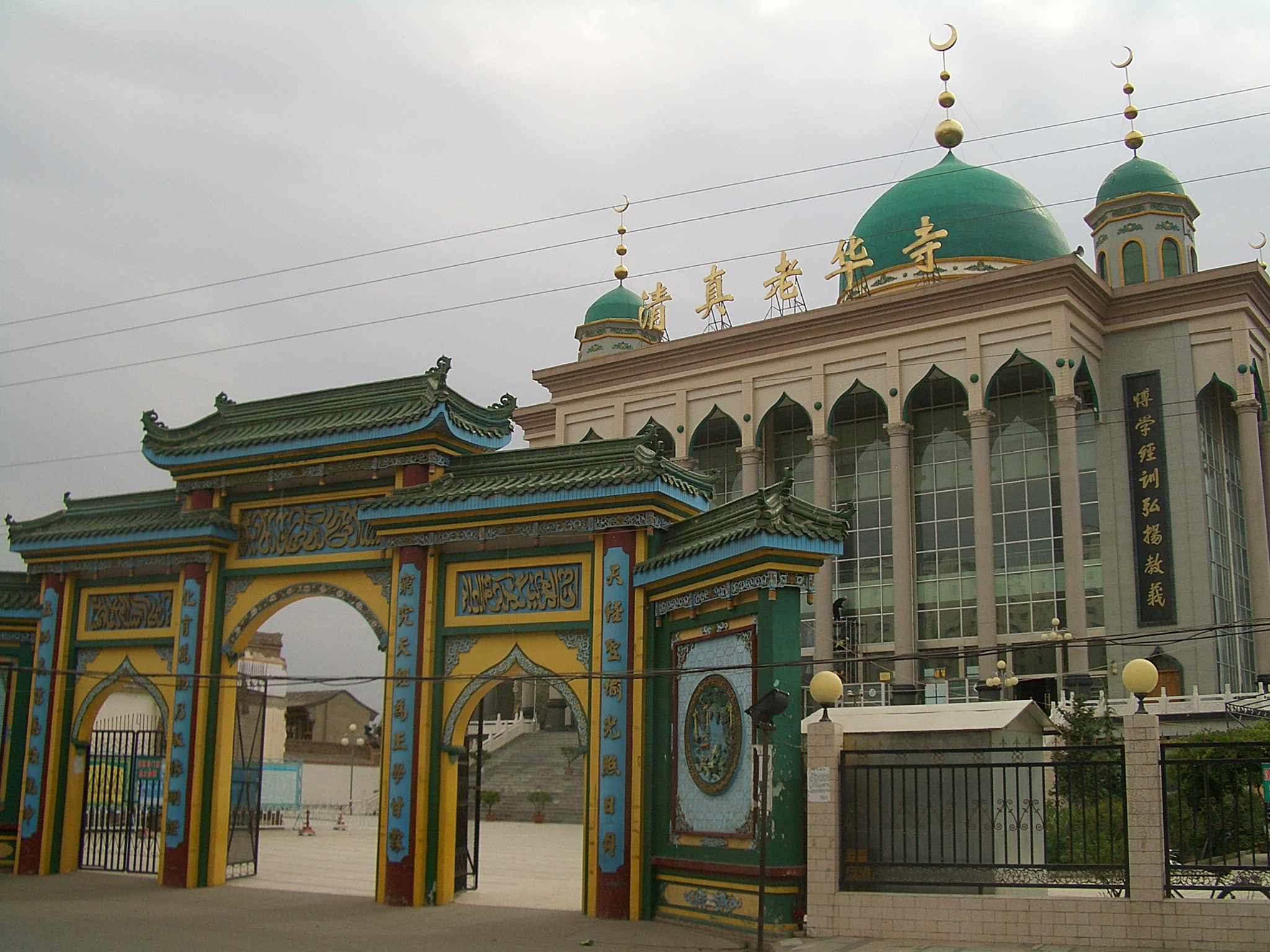 Laohua Mosque in Xin Xi Lu (New Western Street) in Linxia City, west of downtown. This is probably the heart of the old Muslim neighborhood, where the Hui people had to reside after they were prohibited to live within the city wall in 1873. There are 4 large mosques - Lao Hua, Xin Hua, Tie Jia, and Qianheyan - in that street.